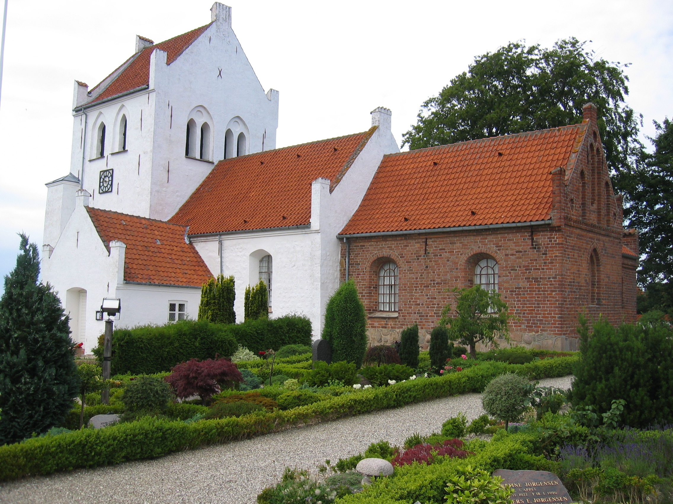 Ramløse Church, Ramløse parish, Holbo Herred, Frederiksborg County, Denmark.